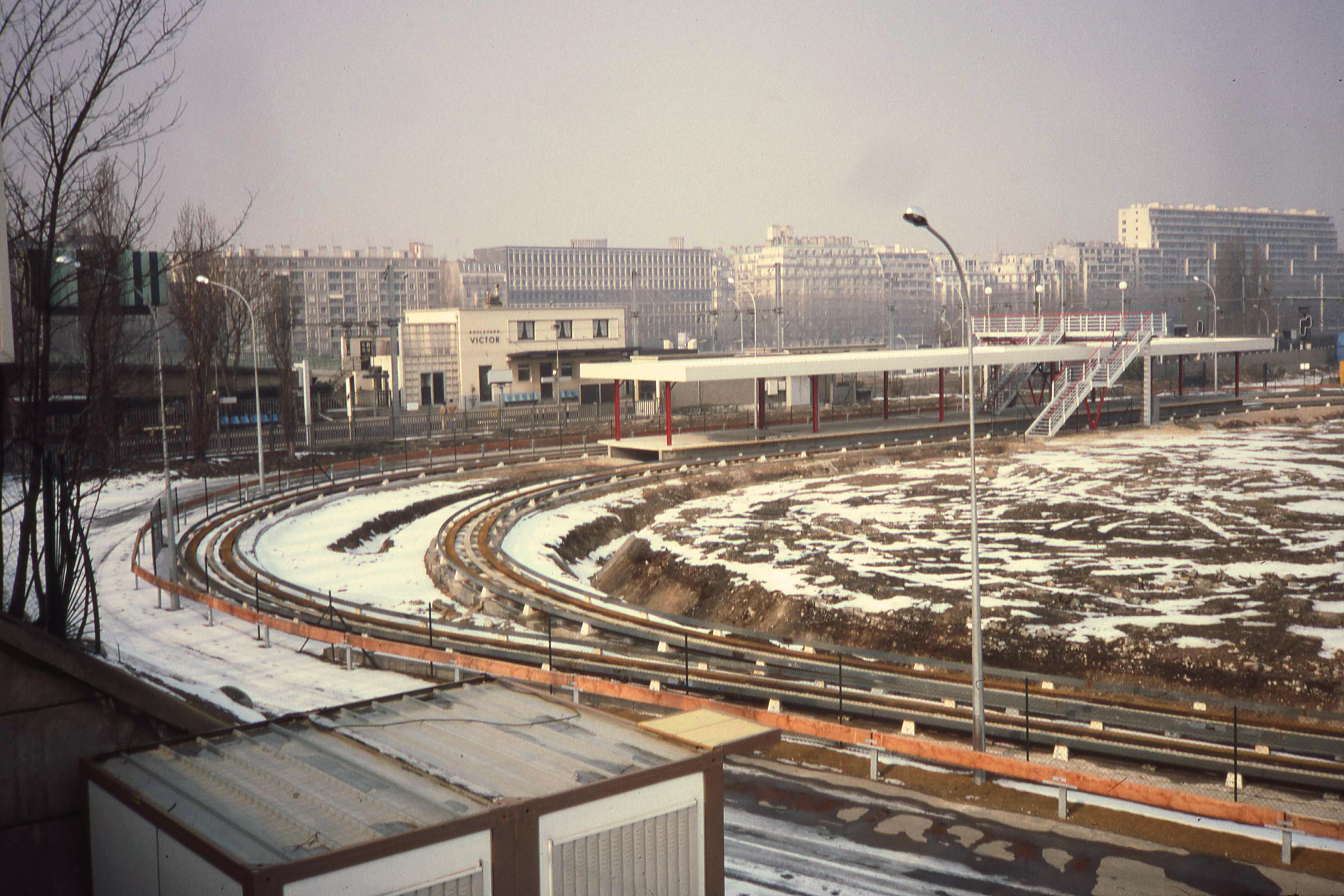 ARAMIS project experimentation by the Gare de Boulevard Victor, Paris, France.